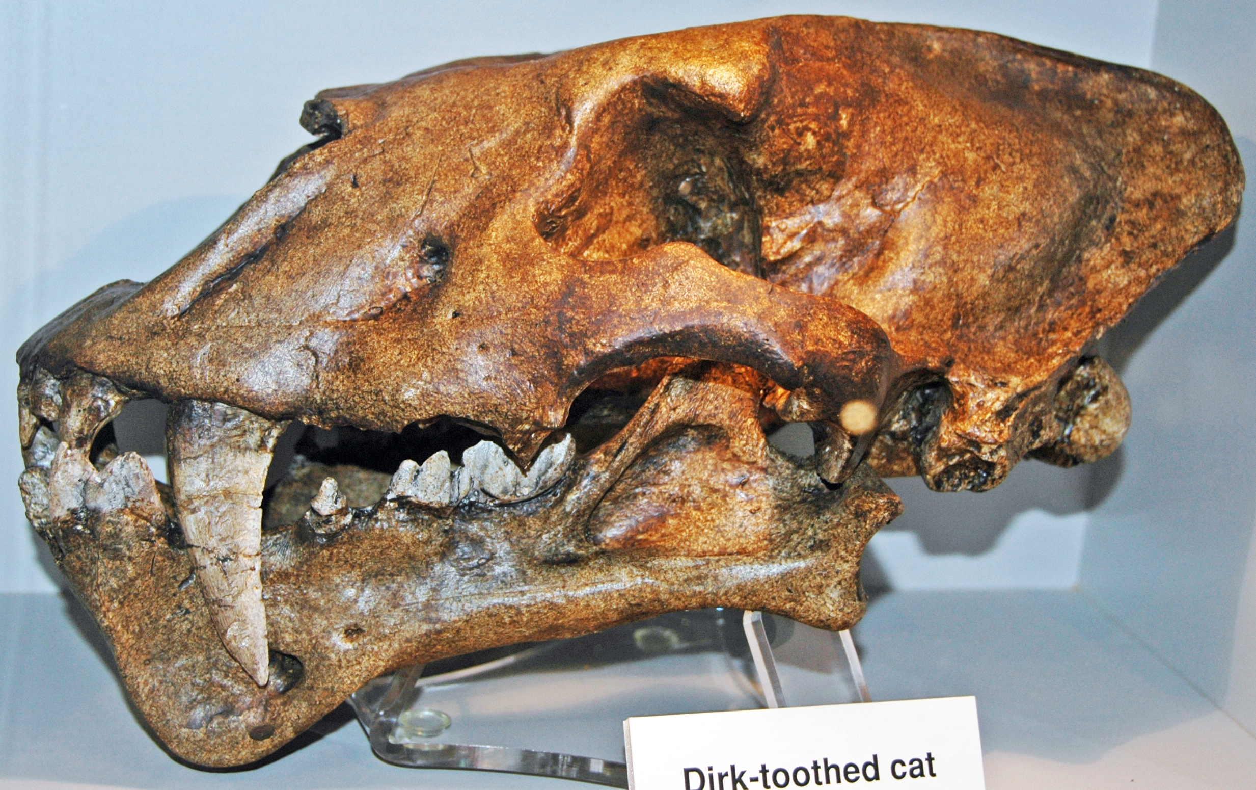 Homotherium serum (Cope, 1893) - fossil dirk-toothed cat skull from the Pleistocene of North America. (public display, Cincinnati Museum of Natural History & Science, Cincinnati, Ohio, USA) Classification: Animalia, Chordata, Vertebrata, Mammalia, Carnivora, Felidae See info. at